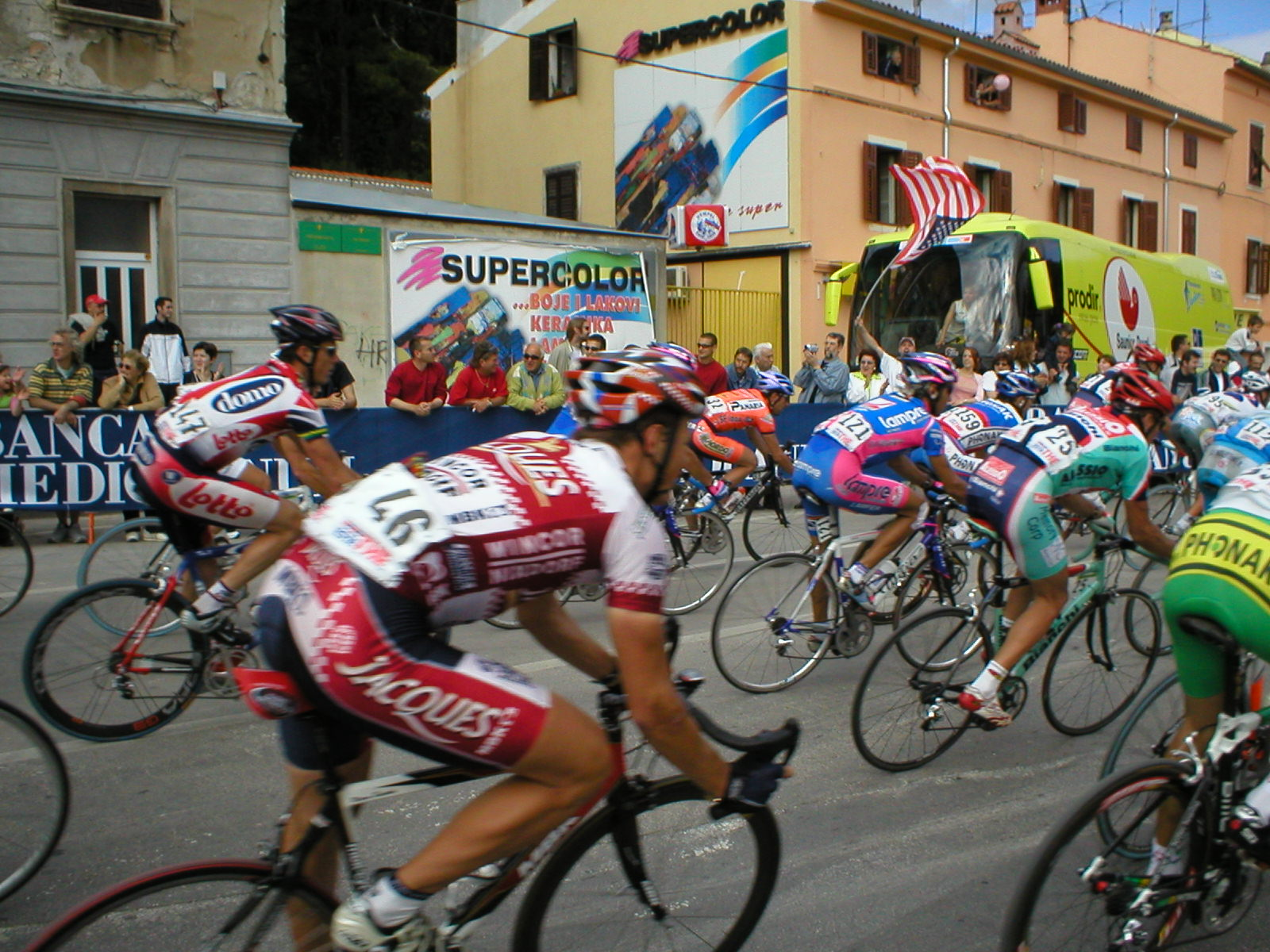 The 87th Giro d'Italia in Pula, Croatia